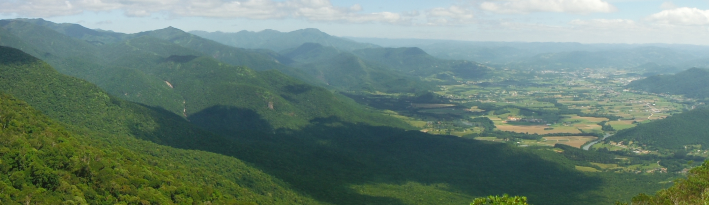 Serra do Tabuleiro State Park, in southern Brazil. Valley of Cubatão do Sul river basin, in the municipality of Santo Amaro da Imperatriz, southern Brazil.